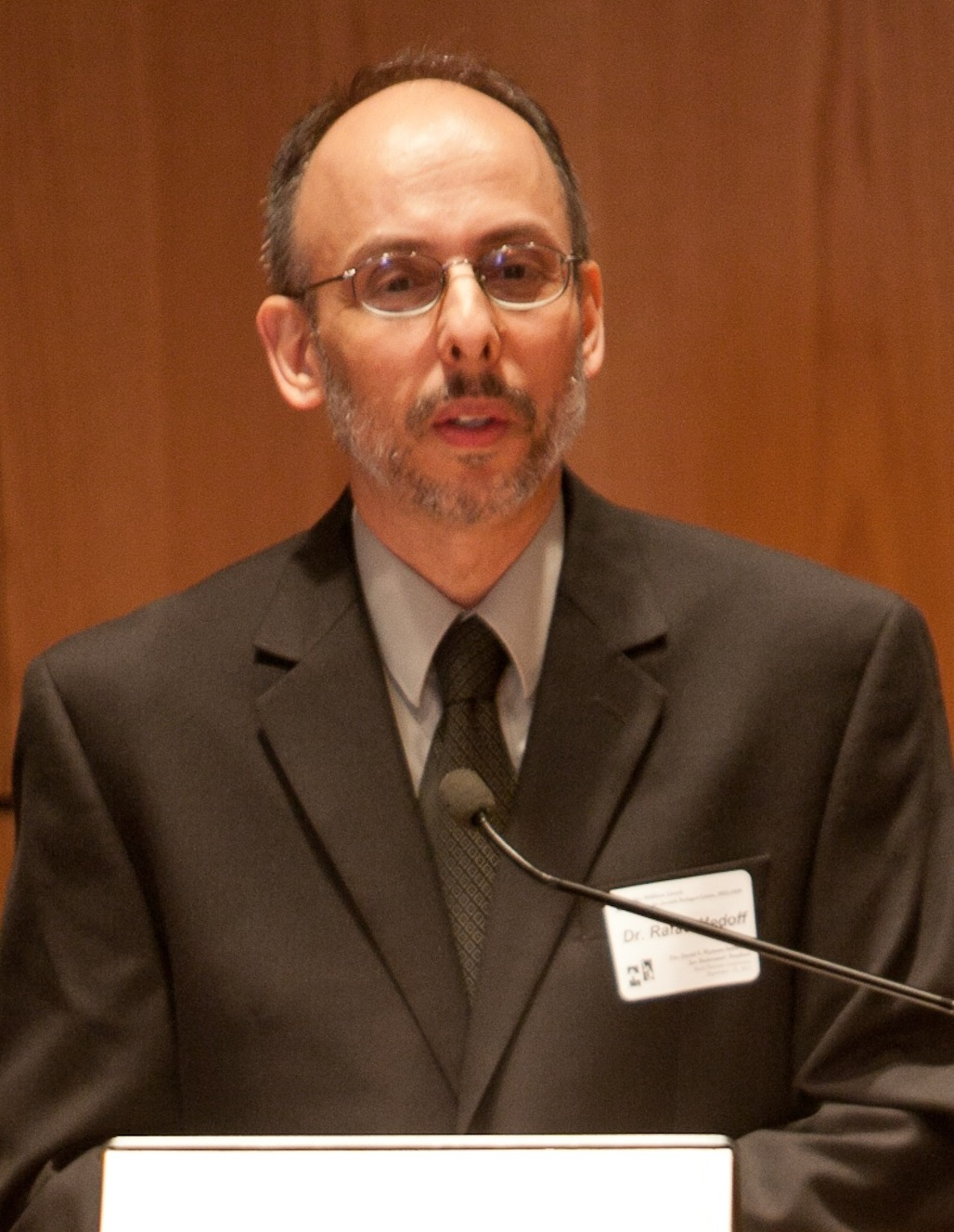 Dr. Rafael Medoff speaking at Fordham Law School, in New York City, on September 18, 2011